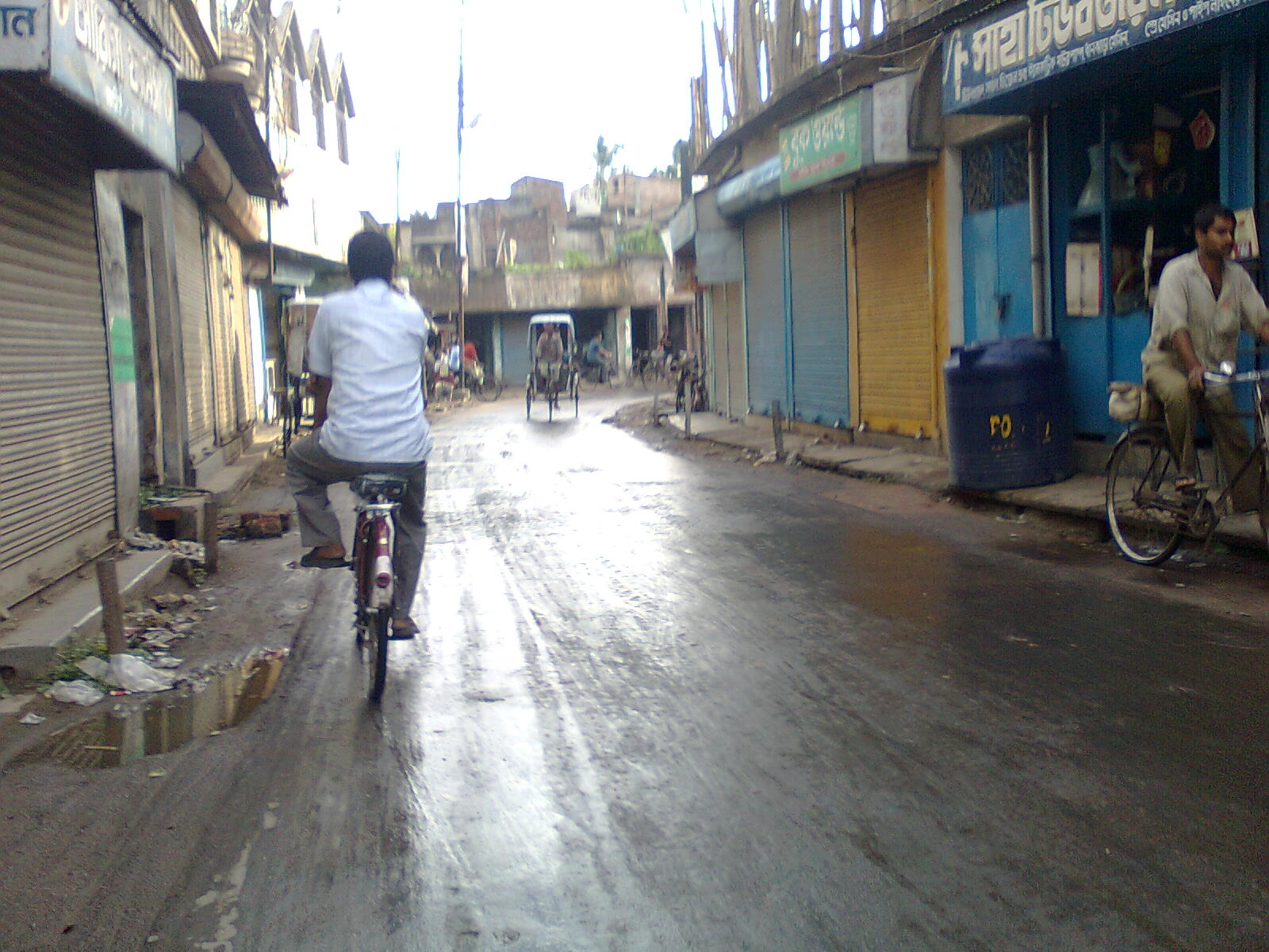 Ranaghat Street